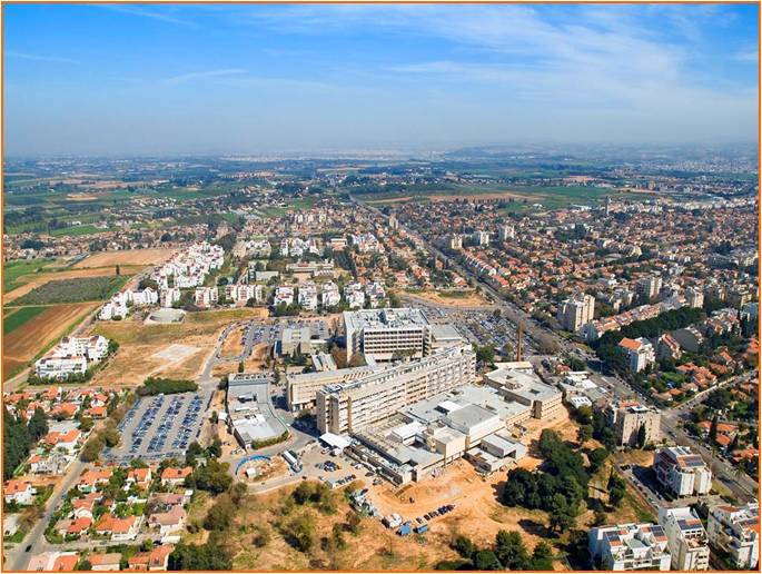 Meir nof